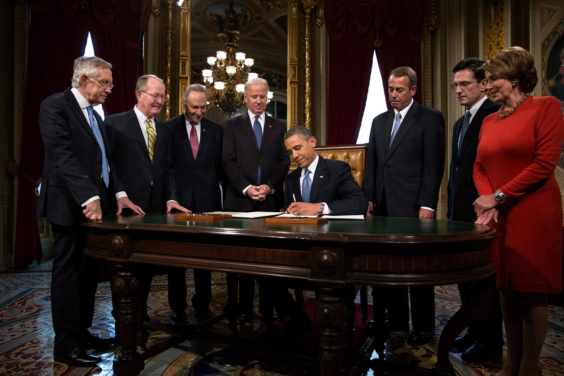 United States President Barack Obama, with Vice President Joe Biden and the Joint Congressional Committee on Inaugural Ceremonies (JCCIC) members, signs a proclamation to commemorate the inauguration entitled, “National Day of Hope and Resolve, 2013,” and four Cabinet nomination documents following the inaugural swearing-in ceremony at the U.S. Capitol in Washington, D.C. on 21 January 2013. Pictured, from left, are: Senate Majority Leader Harry Reid, Democratic Party-Nevada; Senator Lamar Alexander, Republican Party-Tennessee; Senator Chuck Schumer, Democratic Party-New York; House Speaker John Boehner, Republican Party-Ohio; House Majority Leader Eric Cantor, Republican Party-Virginia; and Leader Nancy Pelosi, Democratic Party-California.